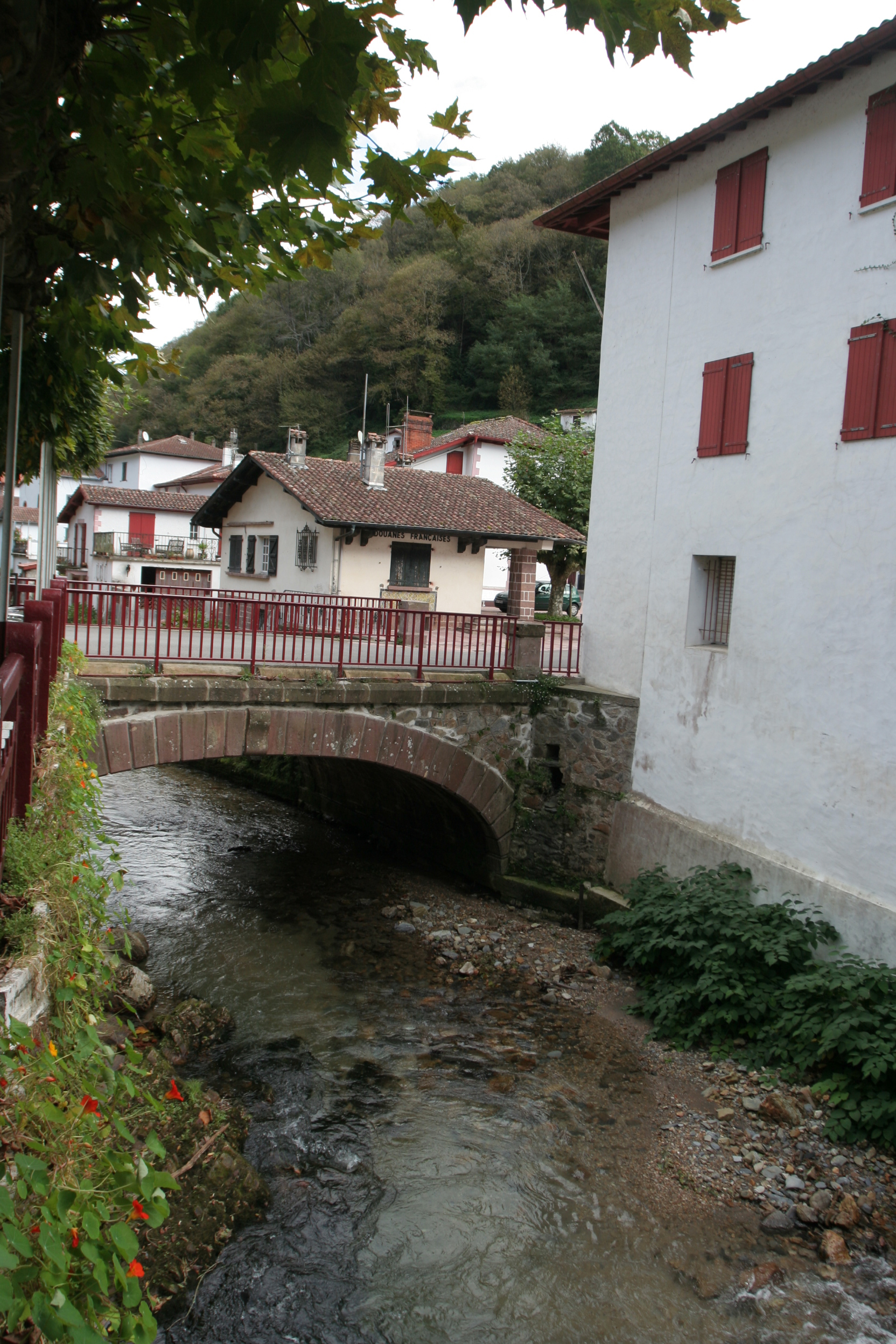 bridge over the Luzaide river, on the border between Spain (left) and France (right)